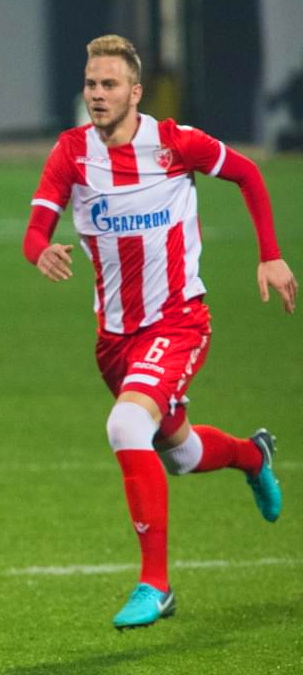 07.02.2018. Турция, Анталия, стадион «Мардан». Вторые зимние «Газпром» — тренировочные сборы: товарищеский матч «Зенит» — «Црвена Звезда».